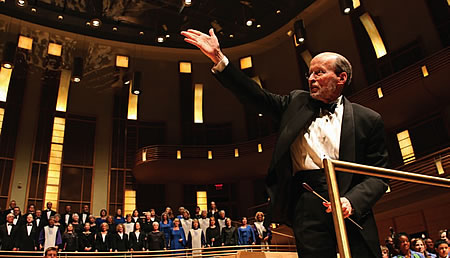 Music Director Philip Brunelle takes a bow at the end of the concert America Sings! at the Music Center at Strathmore in Bethesda.